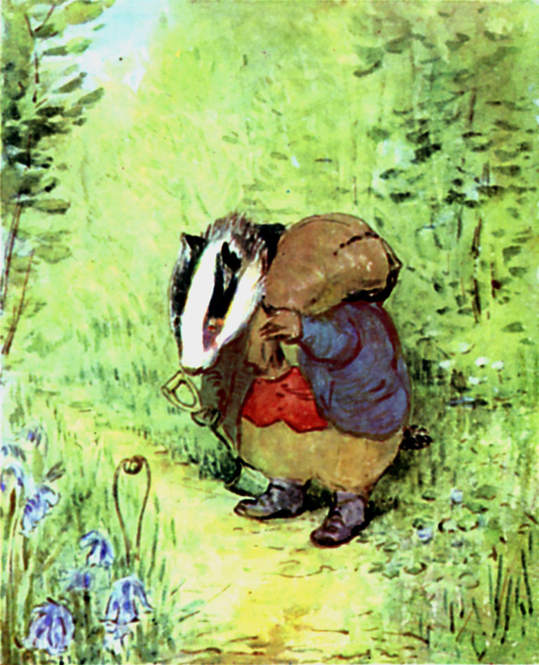 Illustration of Tommy Brock from The Tale of Mr. Tod